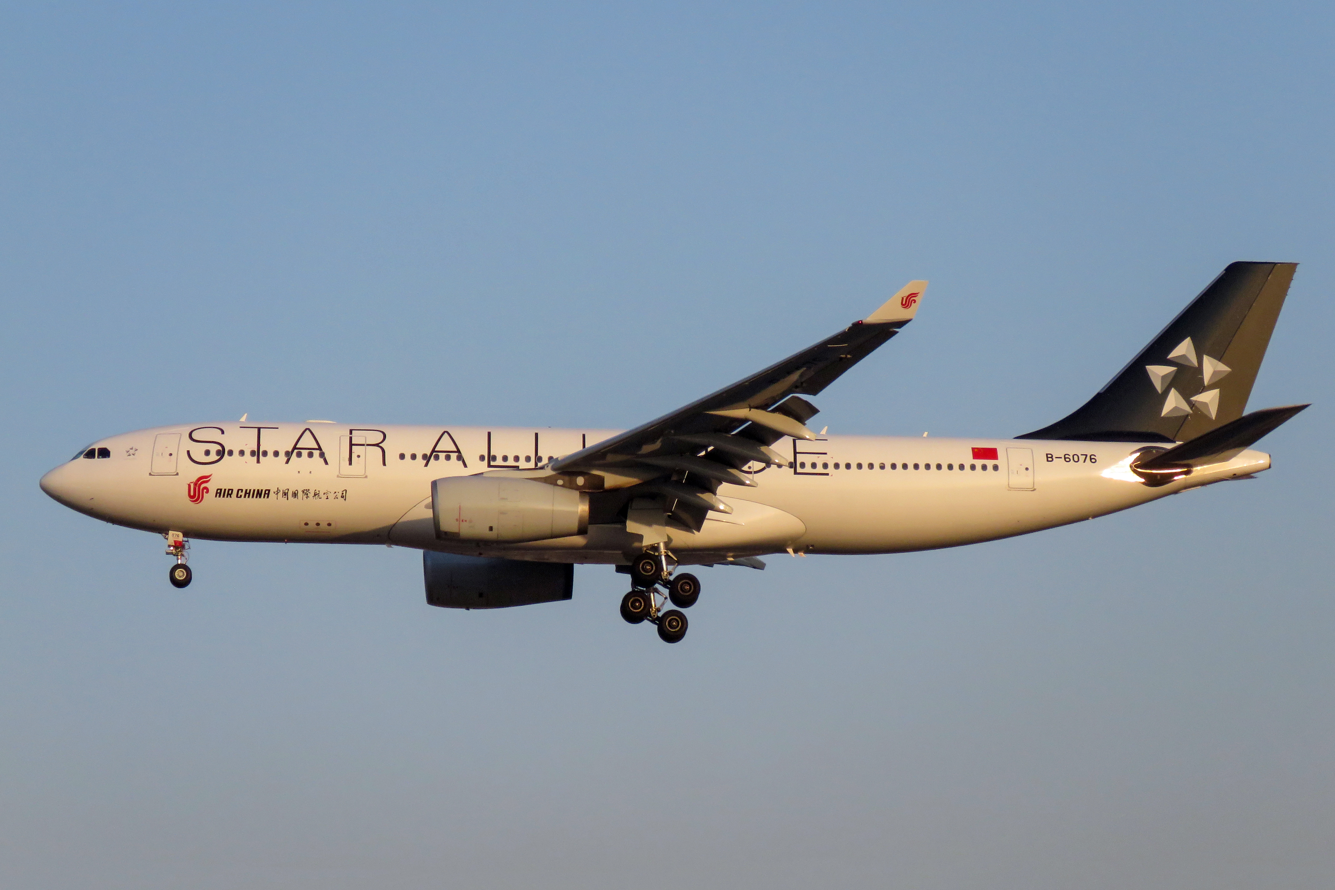 Air China 928 from Osaka -- Yes, it is 6076, the former "Capital Pavilion" which was repainted into Star Alliance livery late this summer.